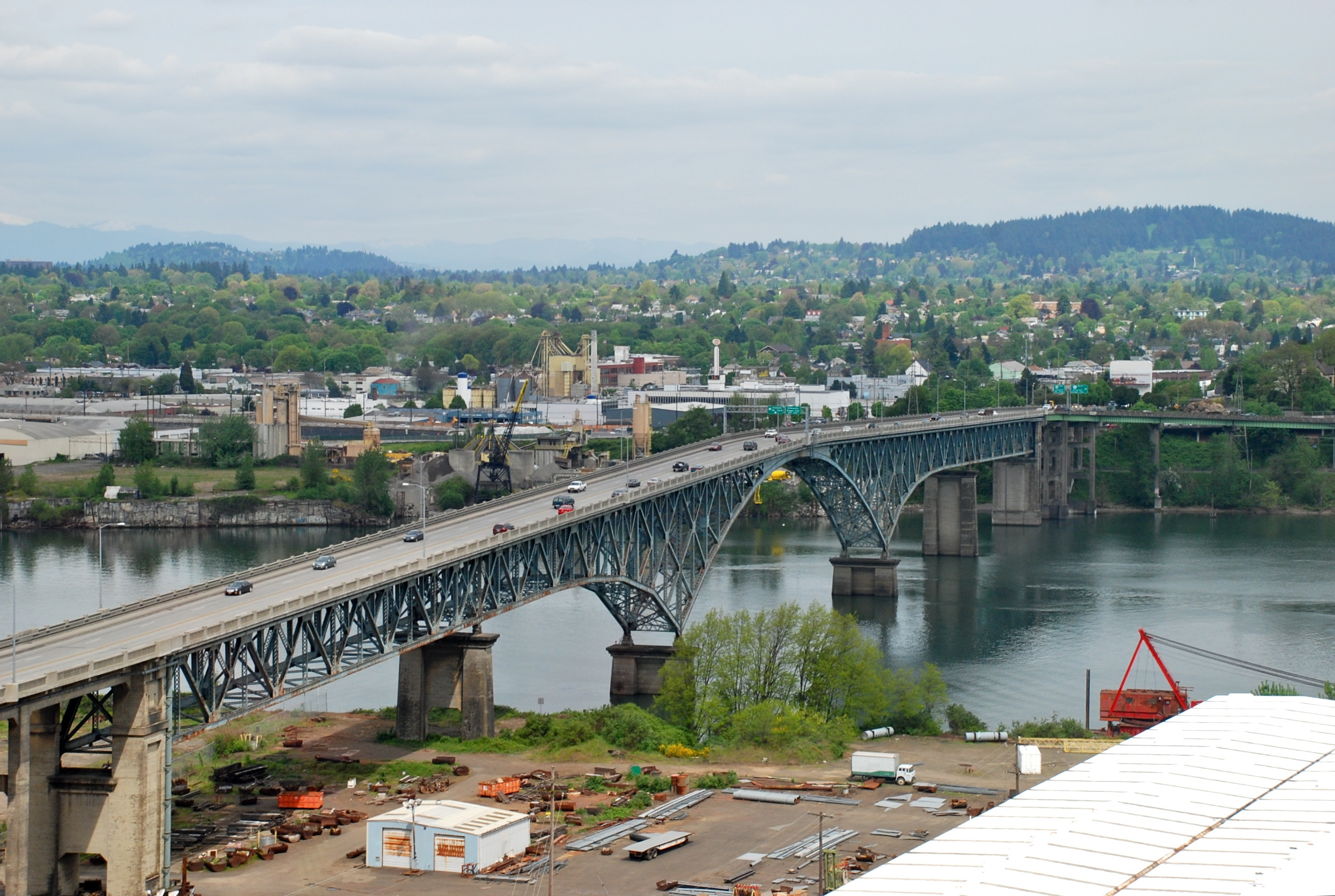 The Ross Island Bridge, viewed from inside one of the cabins of the Portland Aerial Tram (cableway), in 2008. A portion of the Zidell Marine complex is in the foreground, in the South Waterfront district.